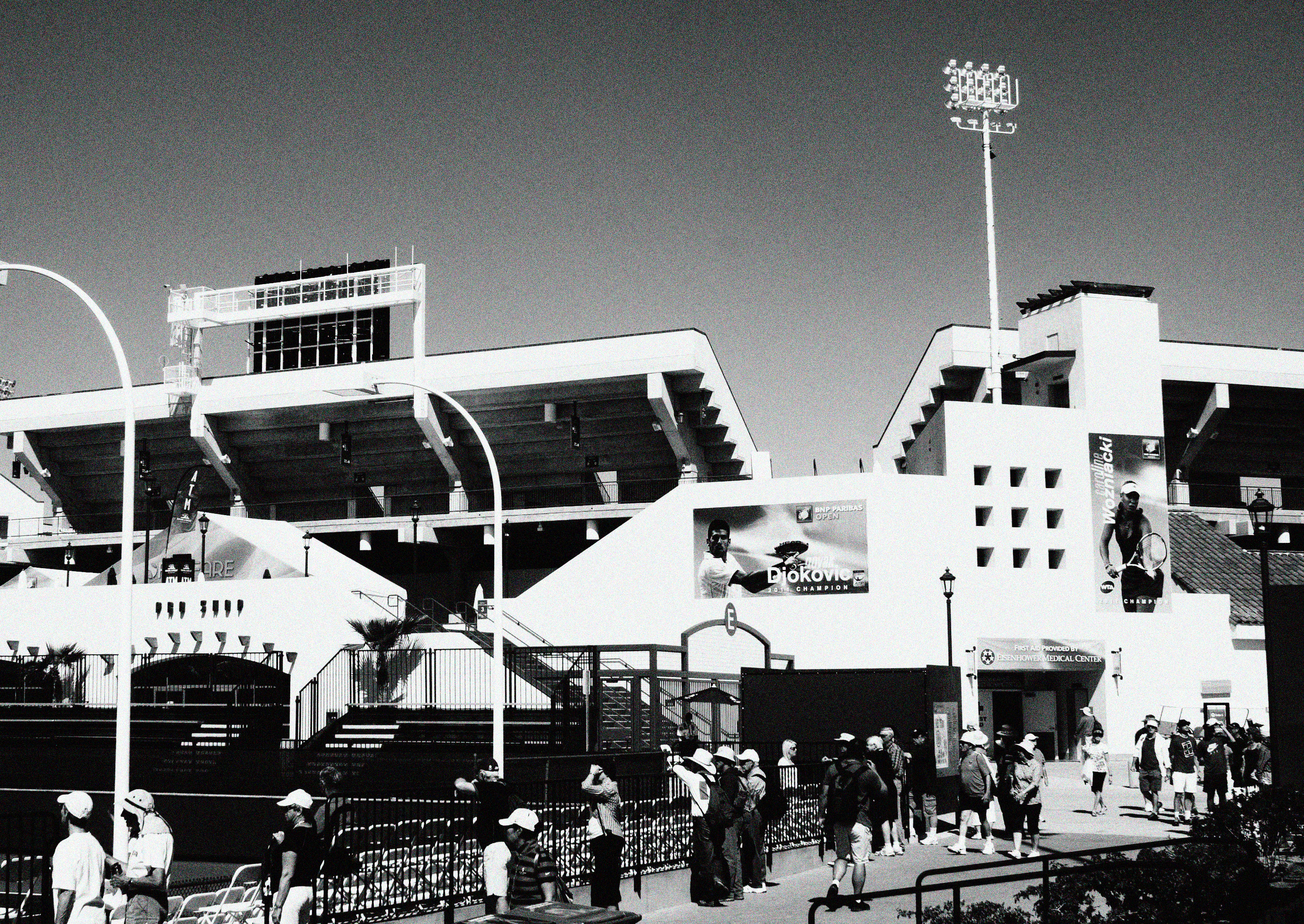 2013 Indian Wells Masters